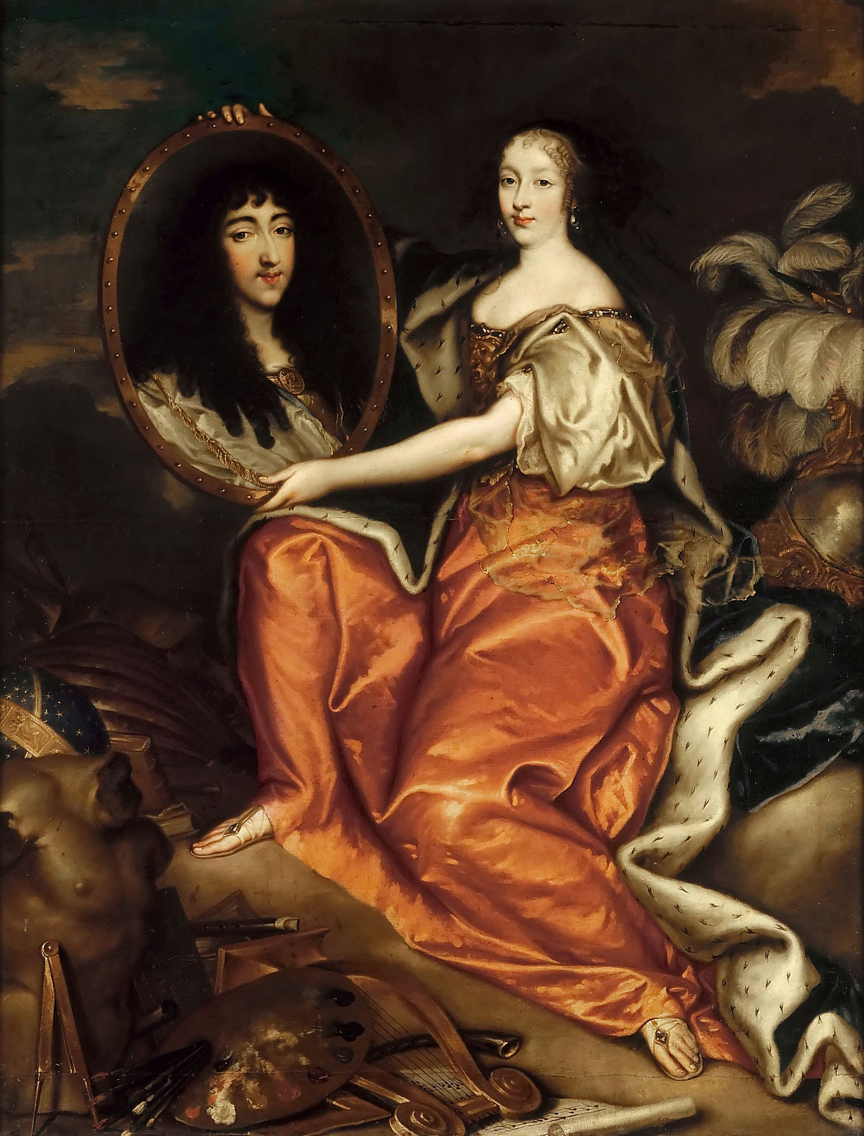 Henriette d'Angleterre as Minerva holding a painting of her husband the Duke of Orléans